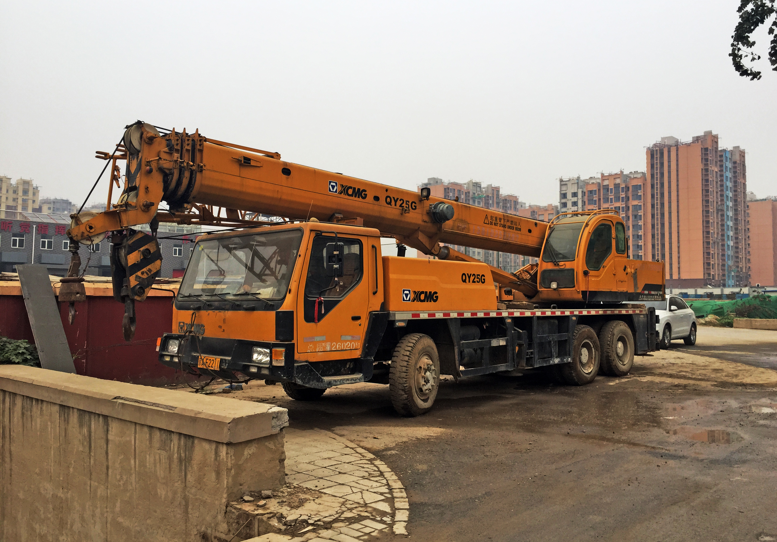 XCMG has 25Gs and 25Ks...